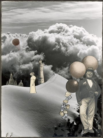 Collage Genja Jonas